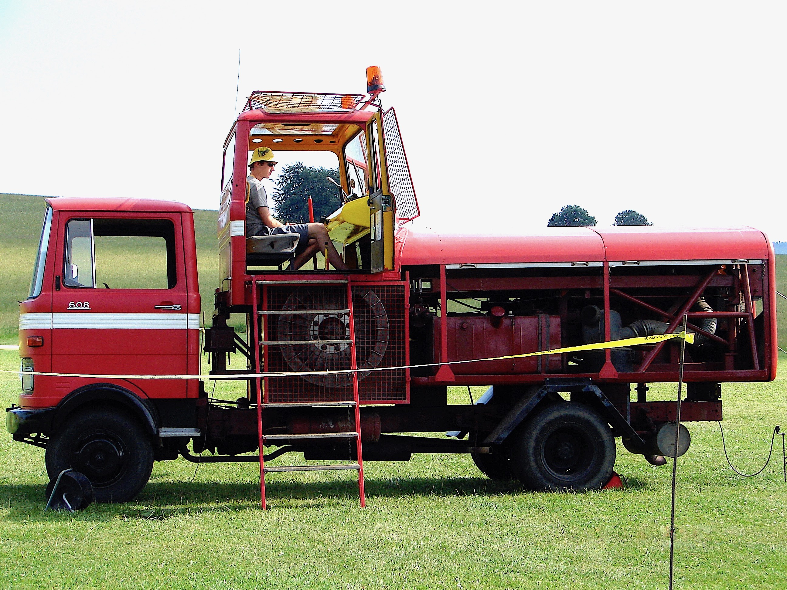 Glider winch mounted on vehicle at Degerfeld airfield